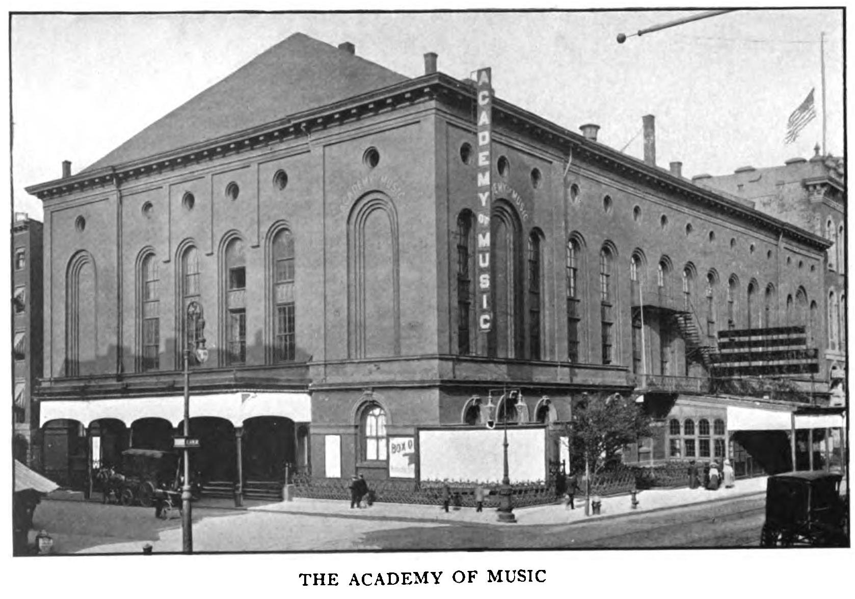 Academy of Music (New York City). Designed by Alexander Saeltzer, built in 1854